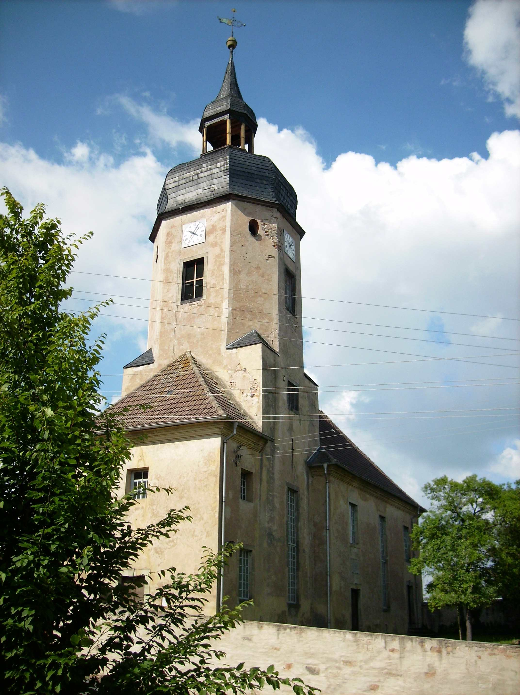 Silbitz church (district of Saale-Holzland-Kreis, Thuringia)